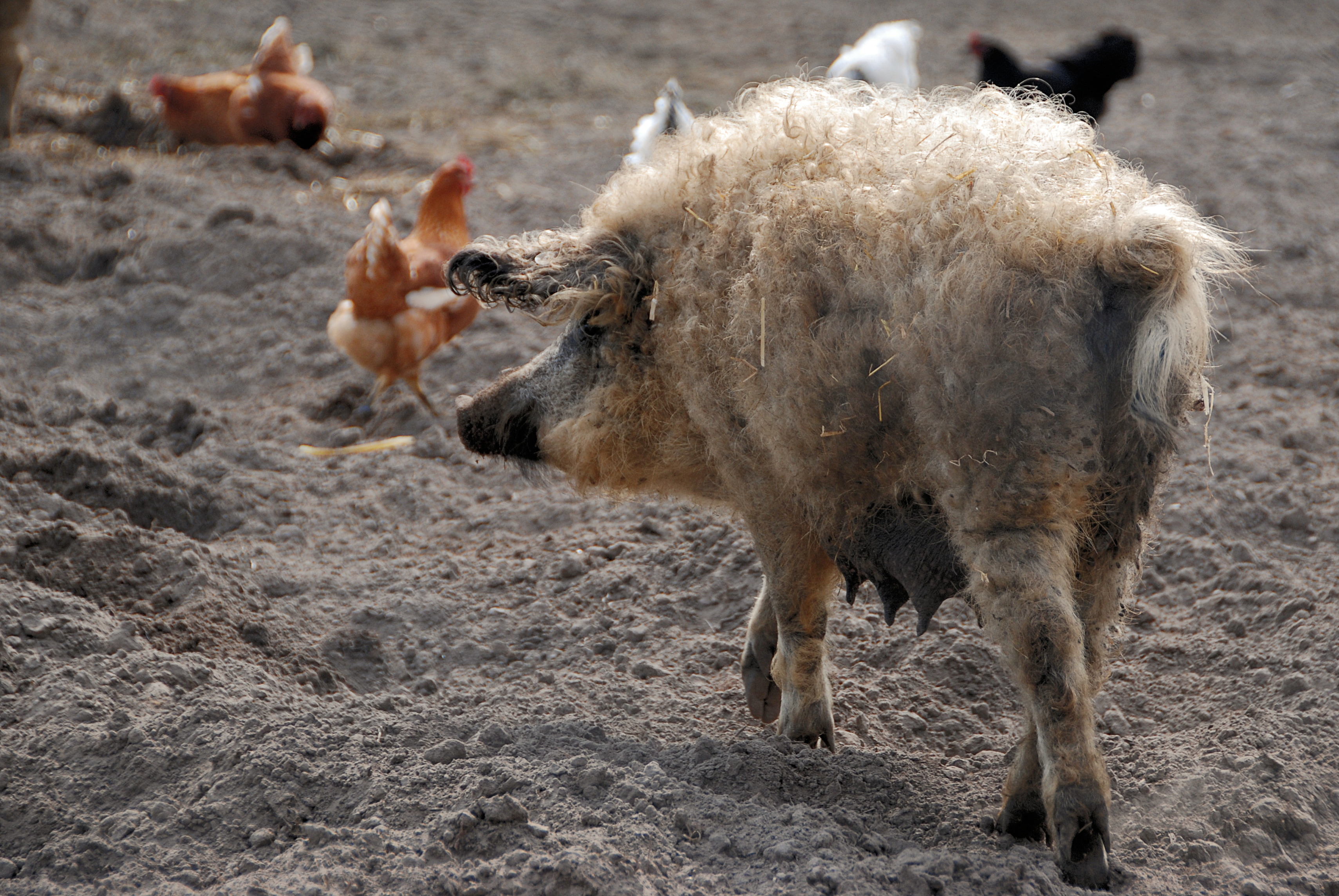 Name: Mangalica Pig. Location: Emshof near Münster, NRW, Germany